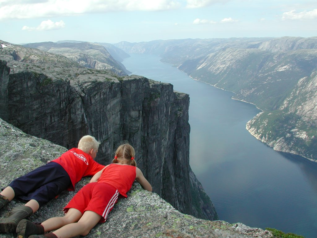 Kjerag in Lysefjorden, Rogaland - Norway. The drop is 1084 m. Kjerag has become a popular BASE jumping destination. In Wikipedia you can find a list of jumpers who perished at Kjerag: The list contains 9 names (07).